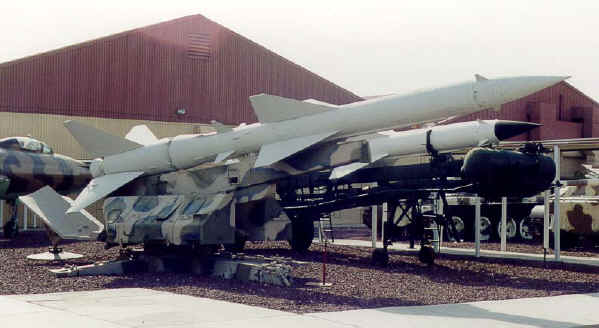 A U.S. military photo.